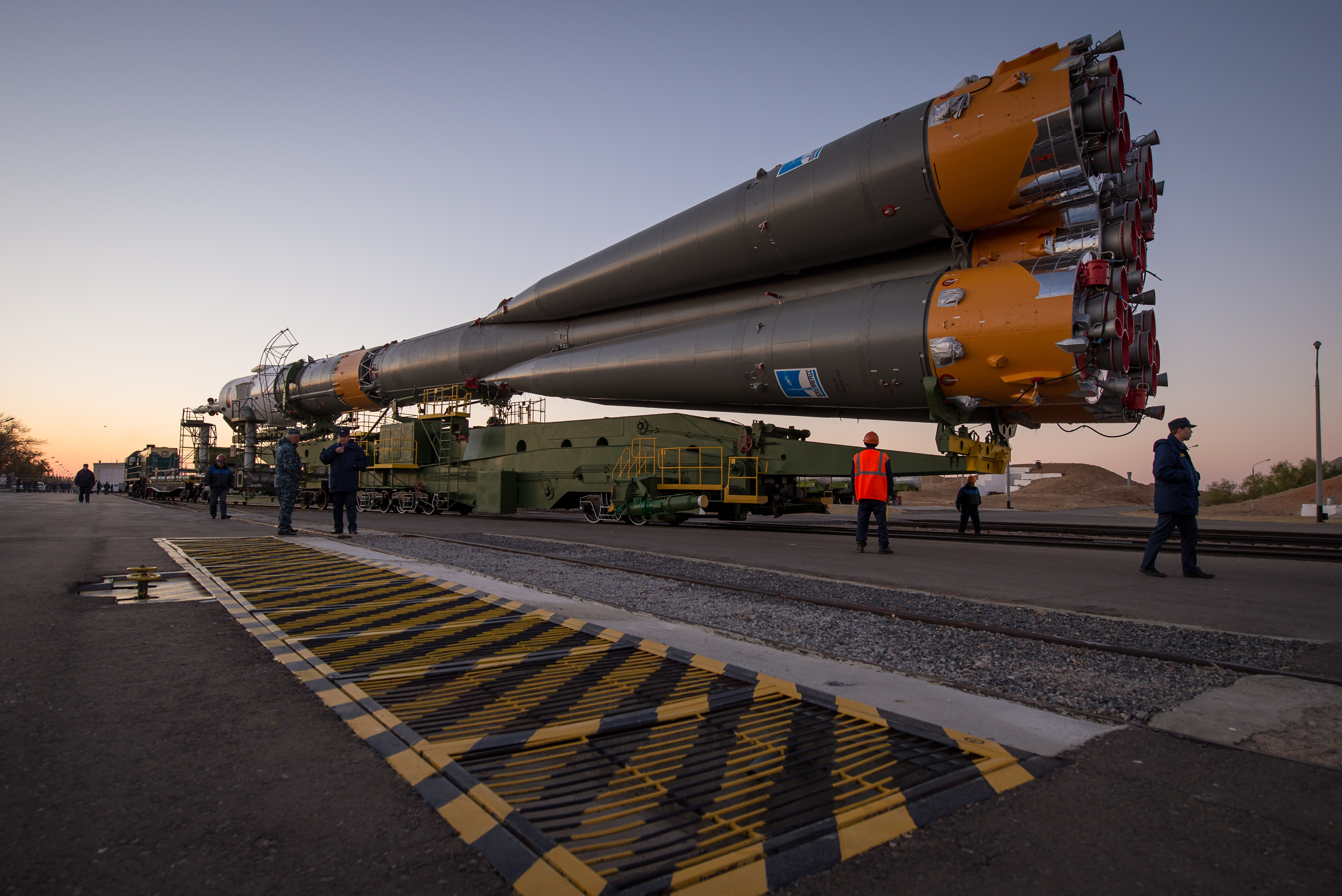 The Soyuz rocket is rolled out to the launch pad by train on Oct. 21, 2012, at the Baikonur Cosmodrome in Kazakhstan. Launch of the Soyuz rocket is scheduled for Oct. 23 and will send Expedition 33 Flight Engineer Kevin Ford of NASA, Soyuz Commander Oleg Novitskiy and Flight Engineer Evgeny Tarelkin of Roscosmos on a five-month mission aboard the International Space Station.